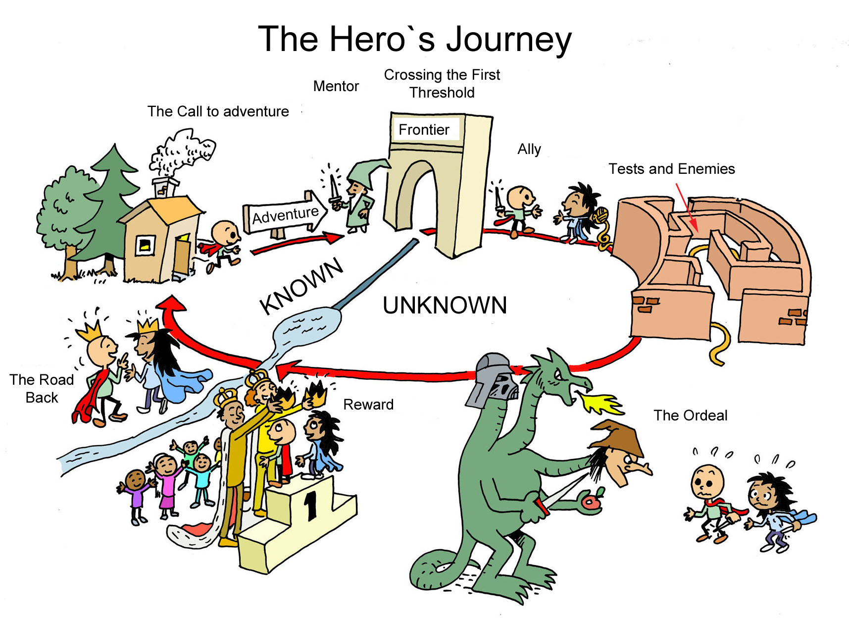 The illustration is loosely based on Christopher Vogler´s description of Hero´s Journey.